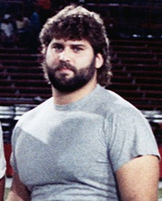 Crop of a photo of Jimbo Covert in his playing days with the Chicago Bears circa 1980s.